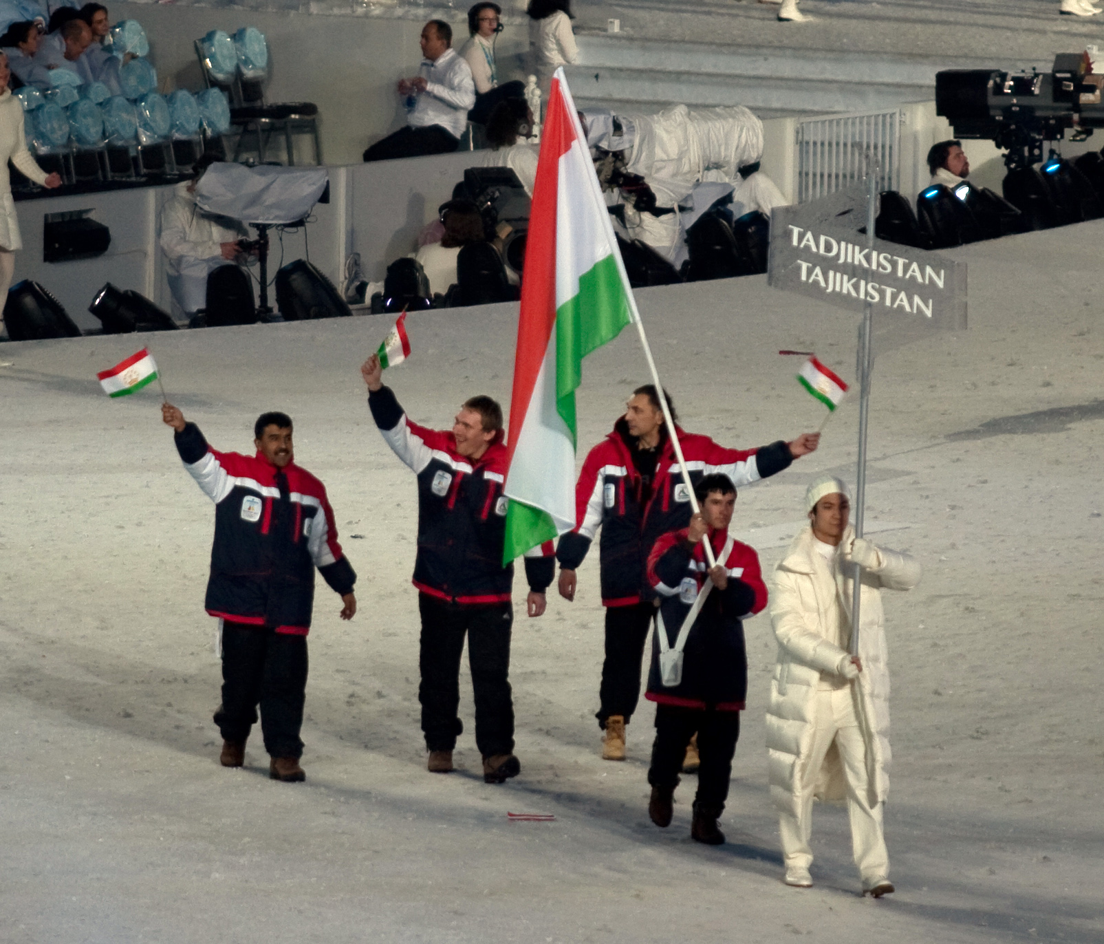 The athletes from Tajikistan entering the stadium at the opening ceremonies of the 2010 Winter Olympics, with Alisher Kudratov carrying the national flag.